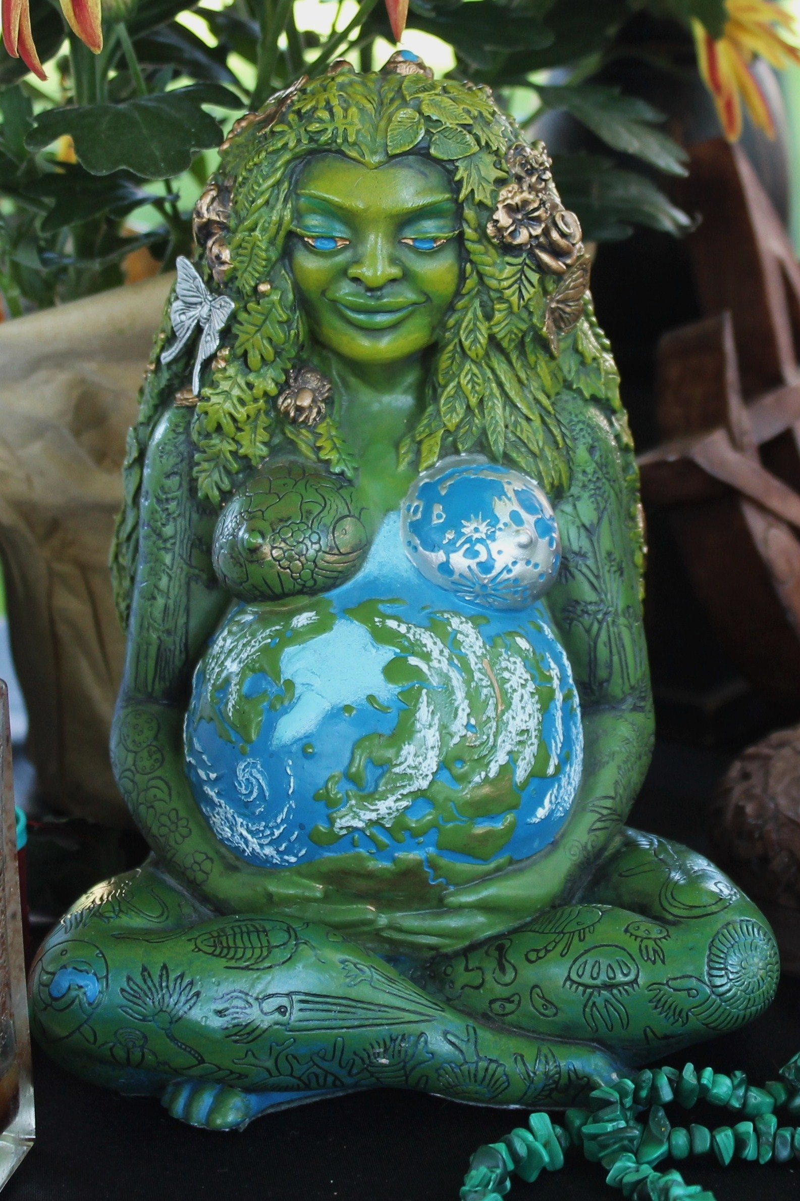 Green ceramic-figurine on a pagan-altar